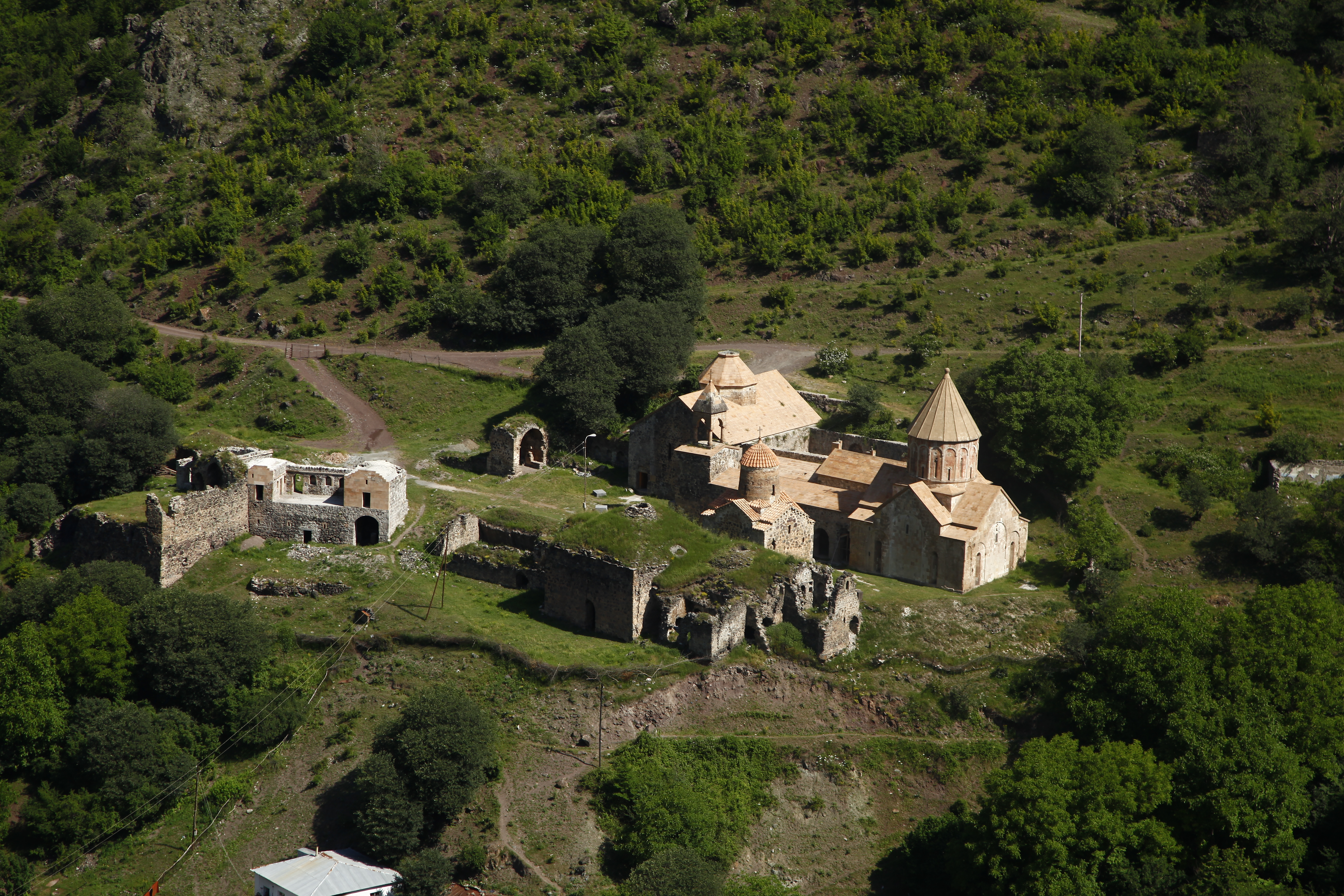 Dadivank aerial view